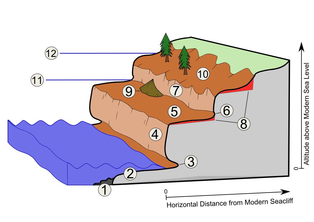 Diagram of marine terrace sequence: 1: low tide cliff/ramp with deposition, 2: modern shore (wave-cut/abrasion-) platform, 3: notch/inner edge, modern shoreline angle, 4: modern sea cliff, 5: old shore (wave-cut/abrasion-) platform, 6: paleo-shoreline angle, 7: paleo-sea cliff, 8: terrace cover deposits/marine deposits, colluvium, 9: alluvial fan, 10: decayed and covered sea cliff and wave-cut platform, 11: paleo-sea level I, 12: paleo-sea level II